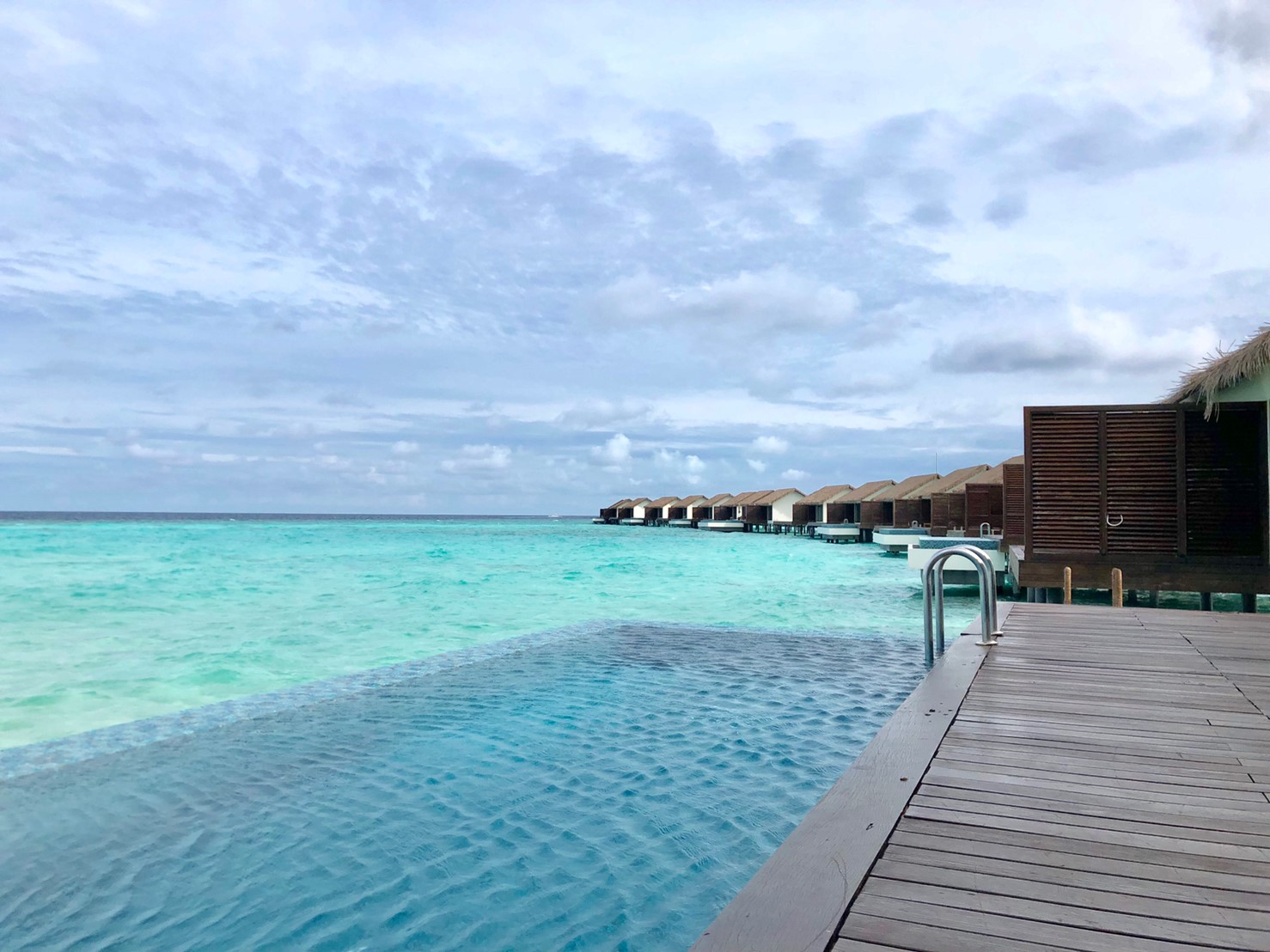 The Residence MALDIVES water villas